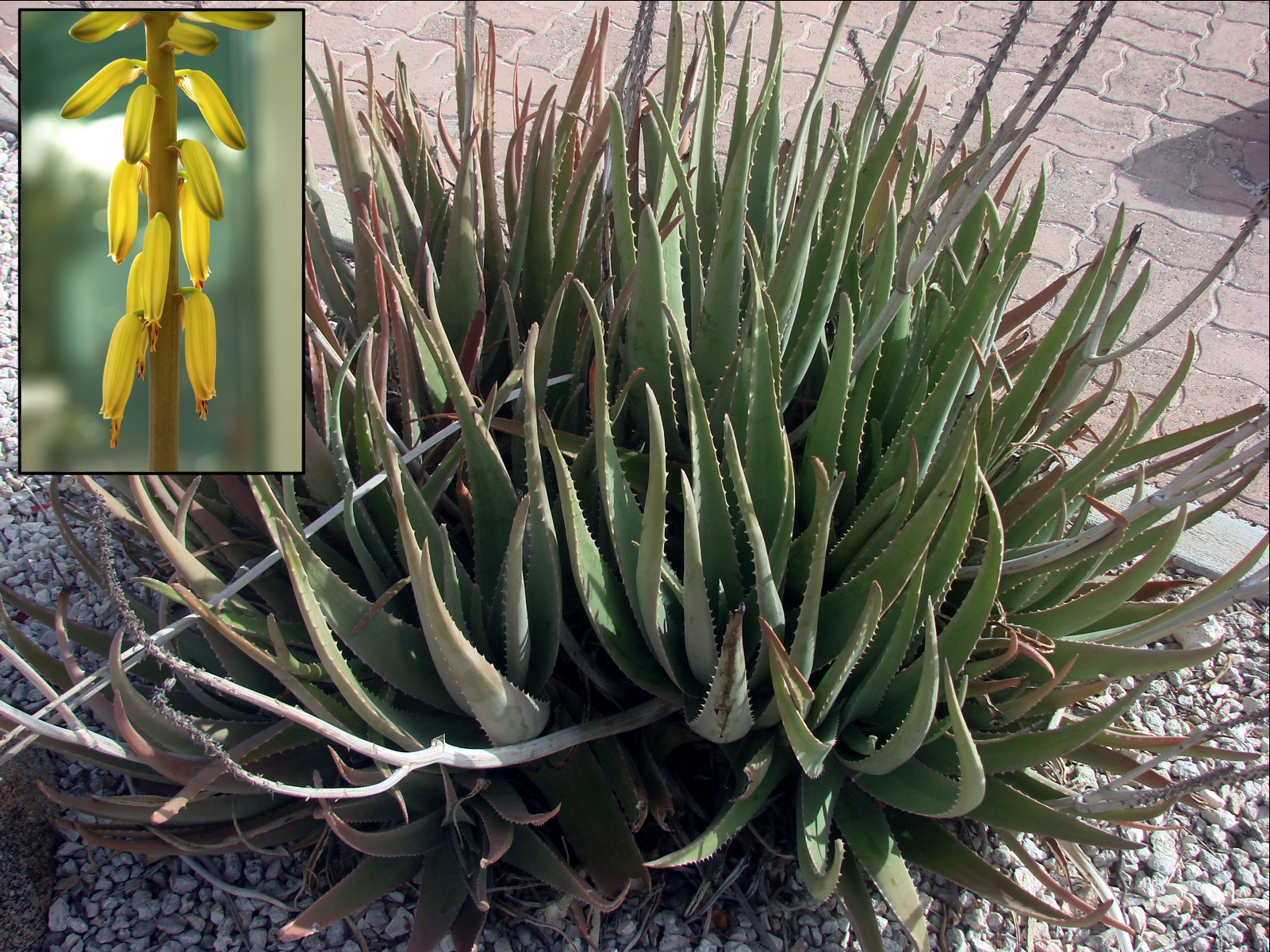 Aloe vera with flower inset image.